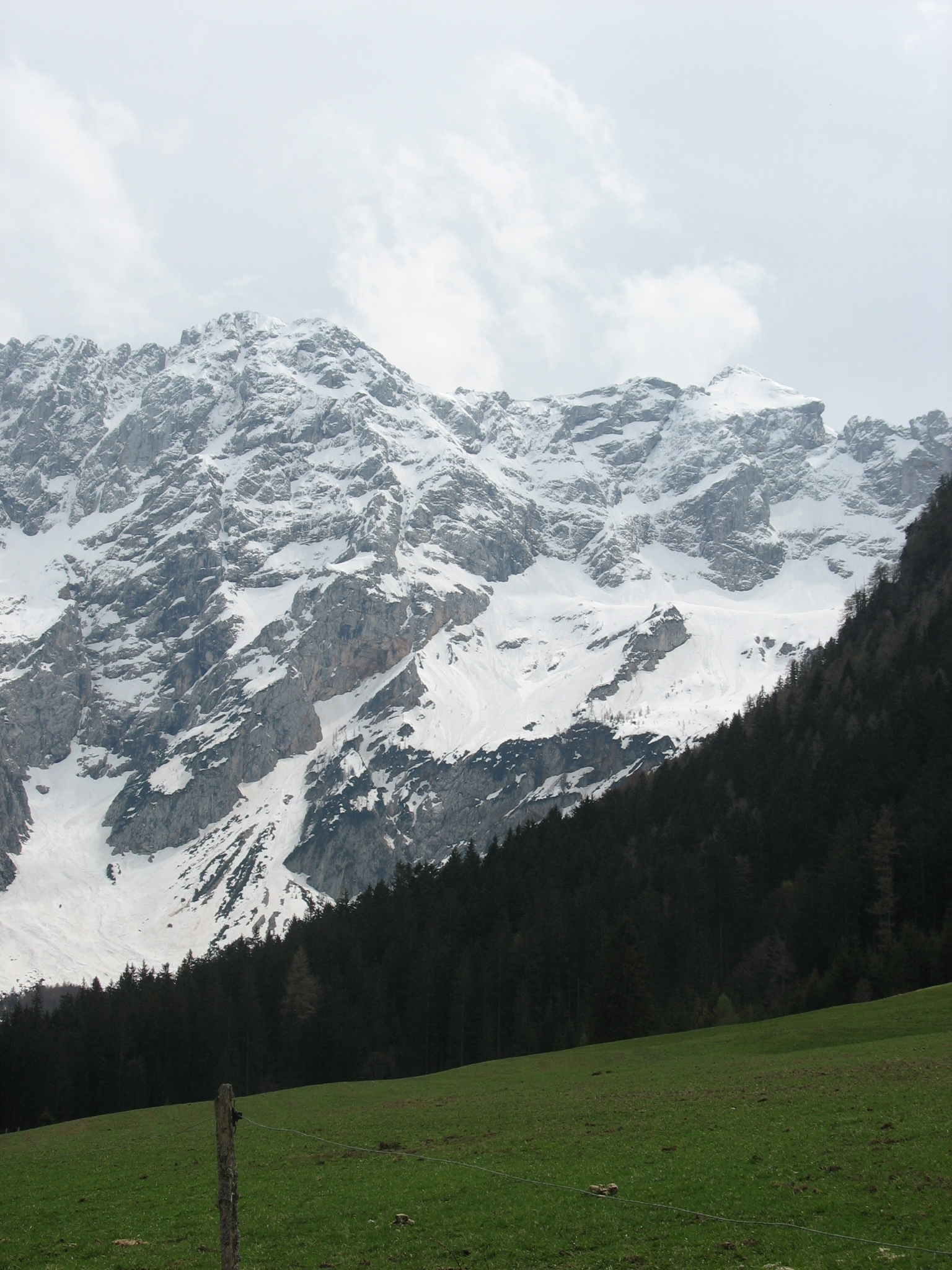 Grintovec, highest point of Kamnik Alps (Kamniško Savinjske Alpe) in north Slovenia - 2558m.